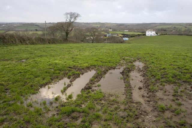 Tresawsan Farm Tresawsan Farm from across a muddy winter field